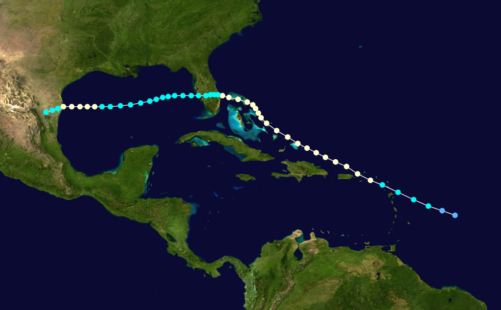 1933 Atlantic hurricane 5 track. Uses the color scheme from the Saffir-Simpson Hurricane Scale.